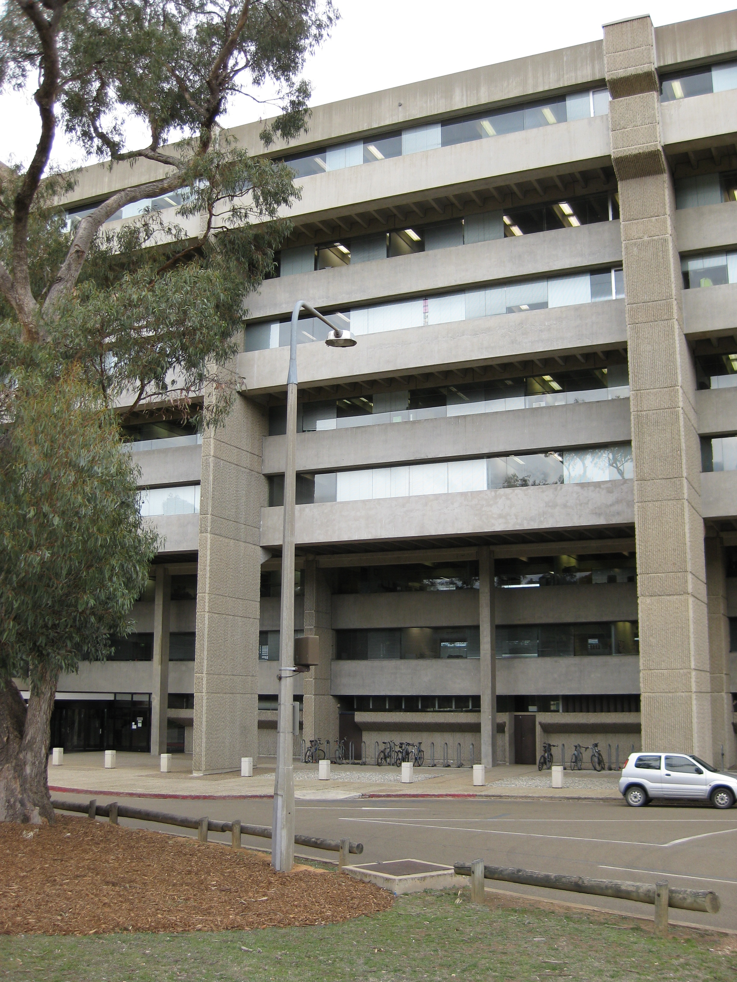 Campbell Park Offices as seen from Northcott Drive, Canberra, ACT, Australia